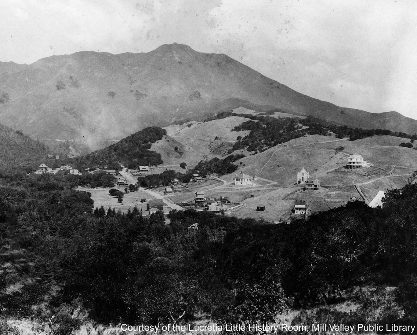 Mill Valley c. 1900. Physical rights of this image are retained by the Mill Valley Public Library, Lucretia Little History Room, or are protected by copyright. Use of this image requires permission from the Mill Valley Public Library, Lucretia Little History Room.